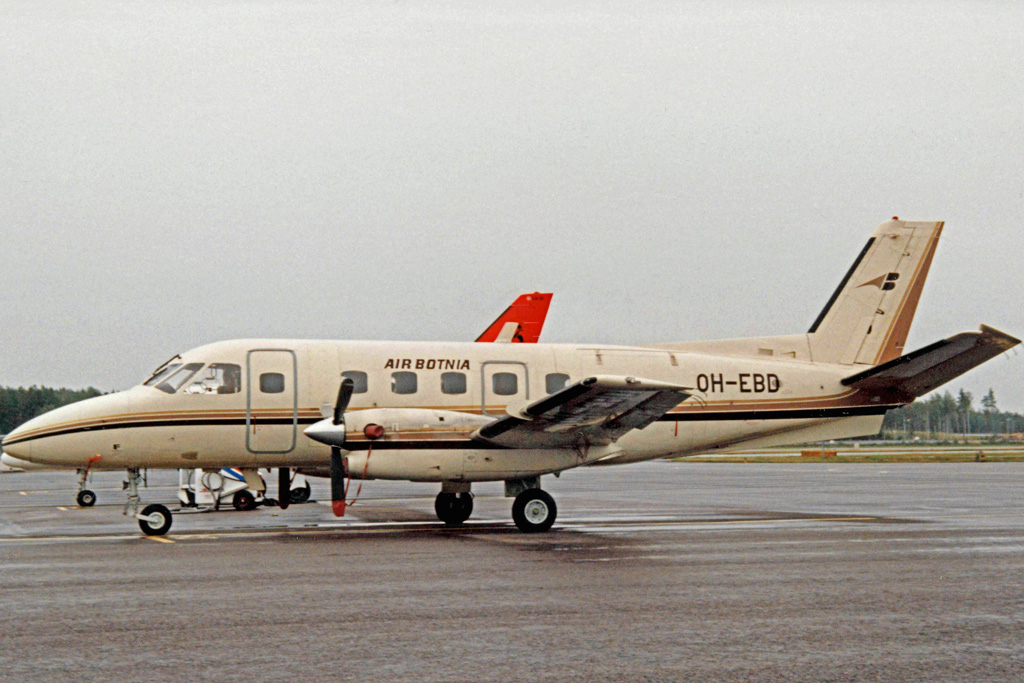 Embraer EMB-110P OH-EBD of Air Botnia at Helsinki Vantaa Airport in 1994